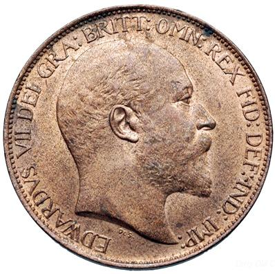 Edward VII half penny; profile portrait engraved by George William de Saulles (1862-1903)